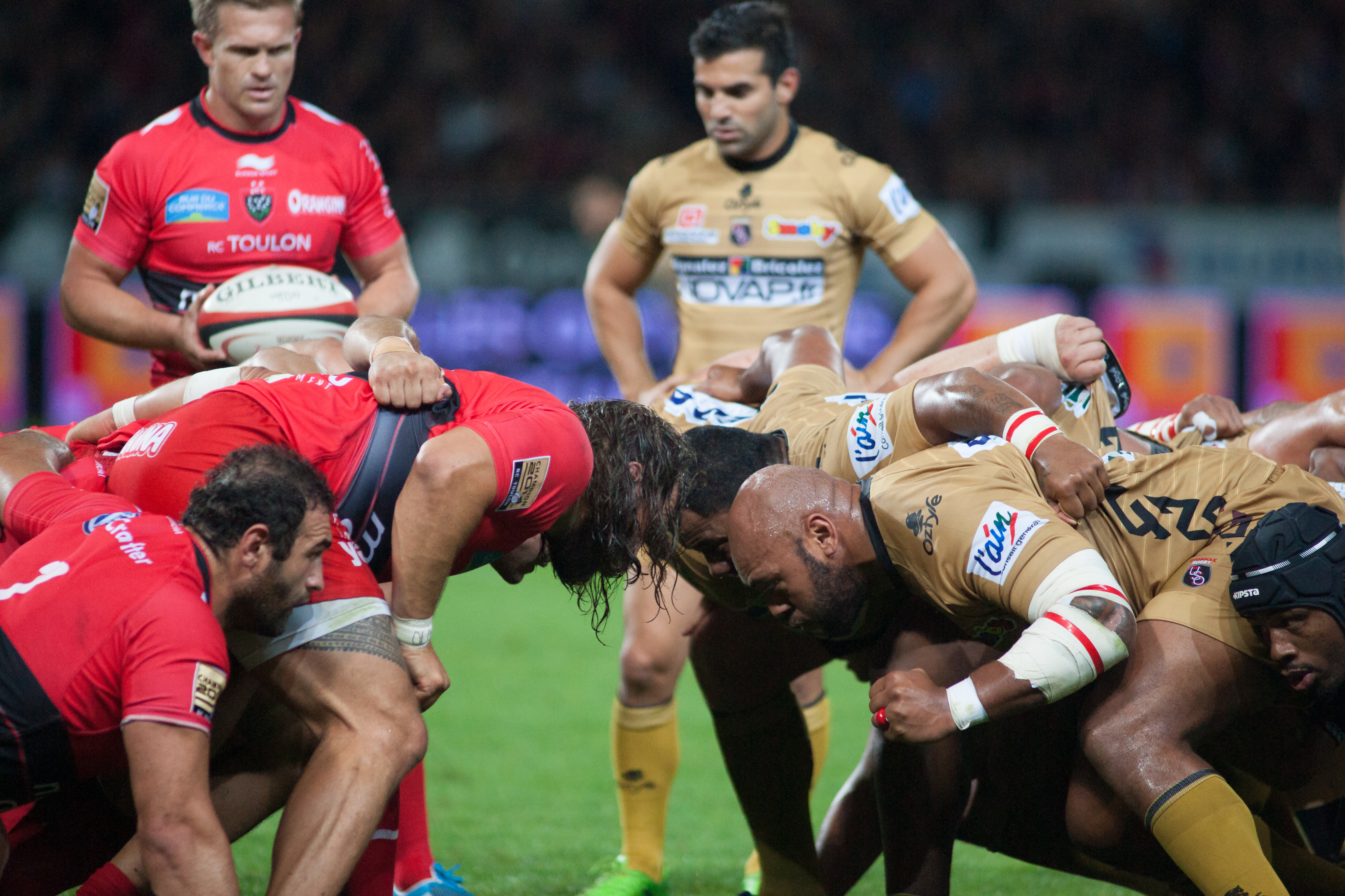 The making of this document was supported by Wikimedia CH. (Submit your project!) For all the files concerned, please see the category Supported by Wikimedia CH. US Oyonnax vs. Rugby Club Toulonnais, 3rd October 2014